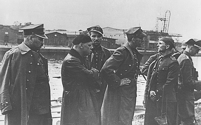 Polish officers (POW), the defenders of Westerplatte 1939. From left: ensign Edward Szewczuk, lieutenant Stefan Grodecki, captain Mieczysław Słaby, captain Franciszek Dąbrowski, 2nd lieutenant Zdzisław Kręgielski